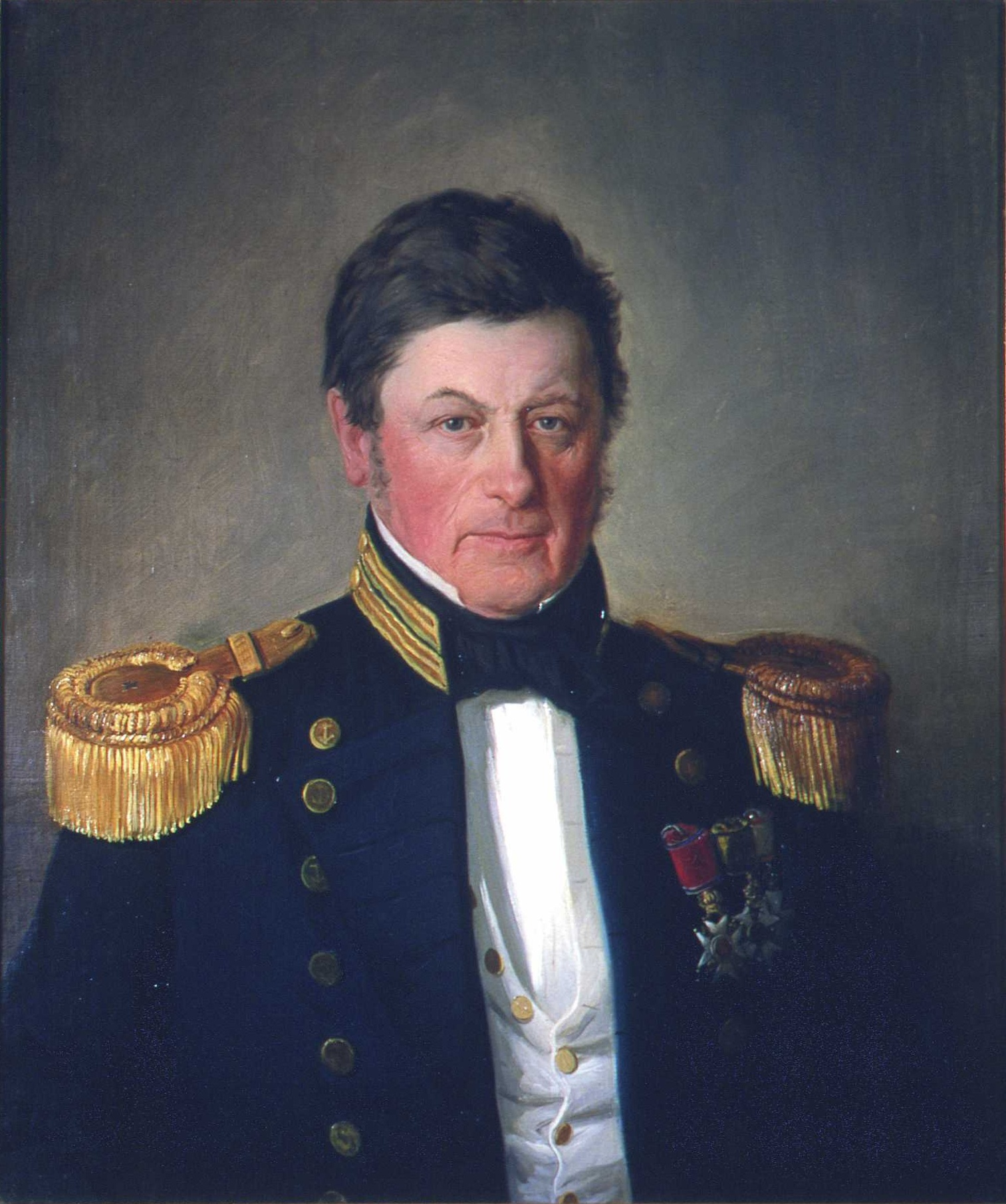 Thomas Konow (1796-1881) Norwegian naval officer and politician. He was a member of the constitutional assembly in Norway in 1814.